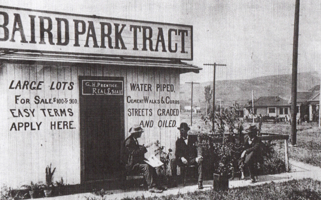 Sales office for Baird Park,, Los Angeles County, 1905 (current El Sereno.